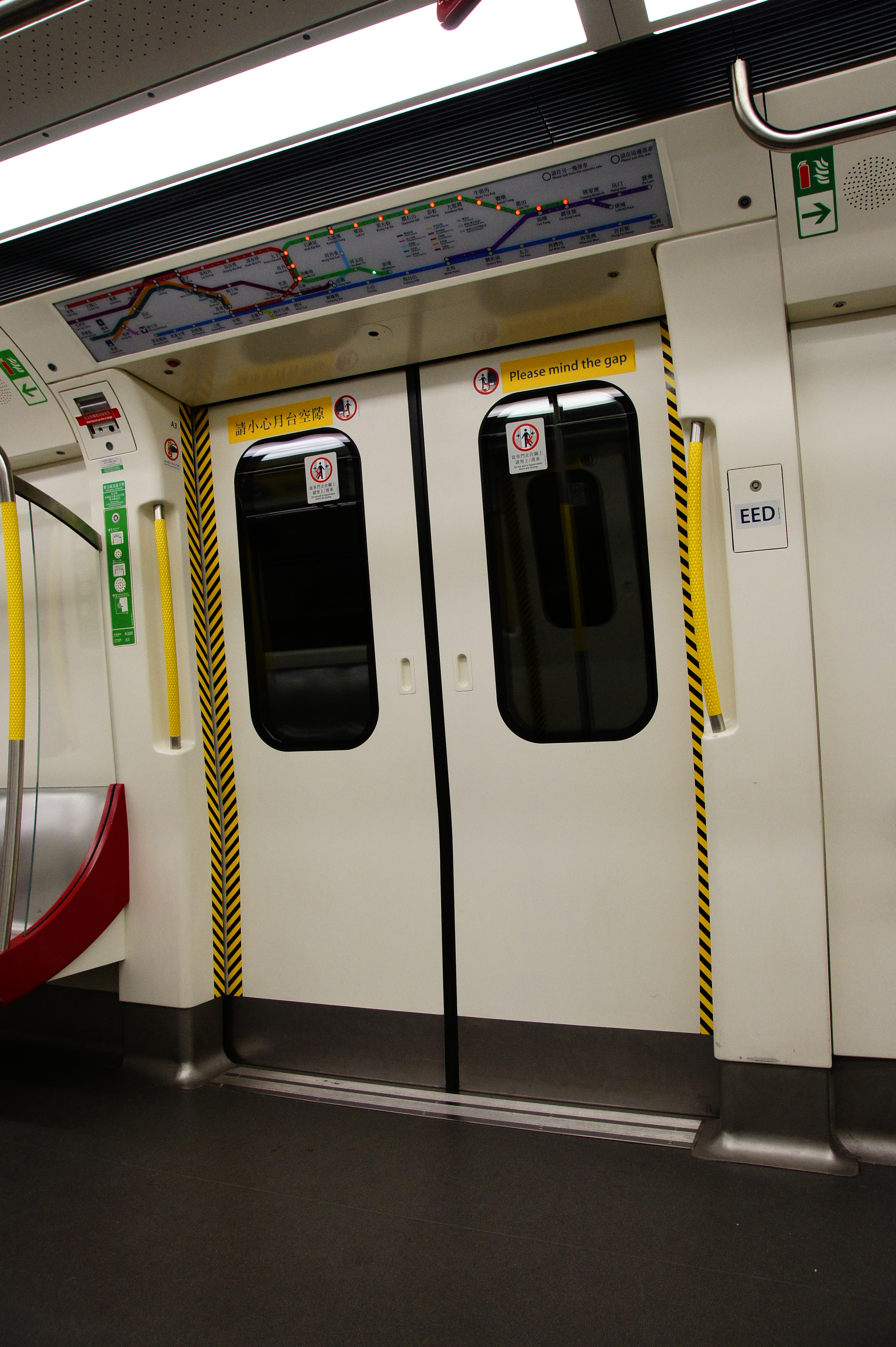 Train doors of MTR Urban Line C-Train